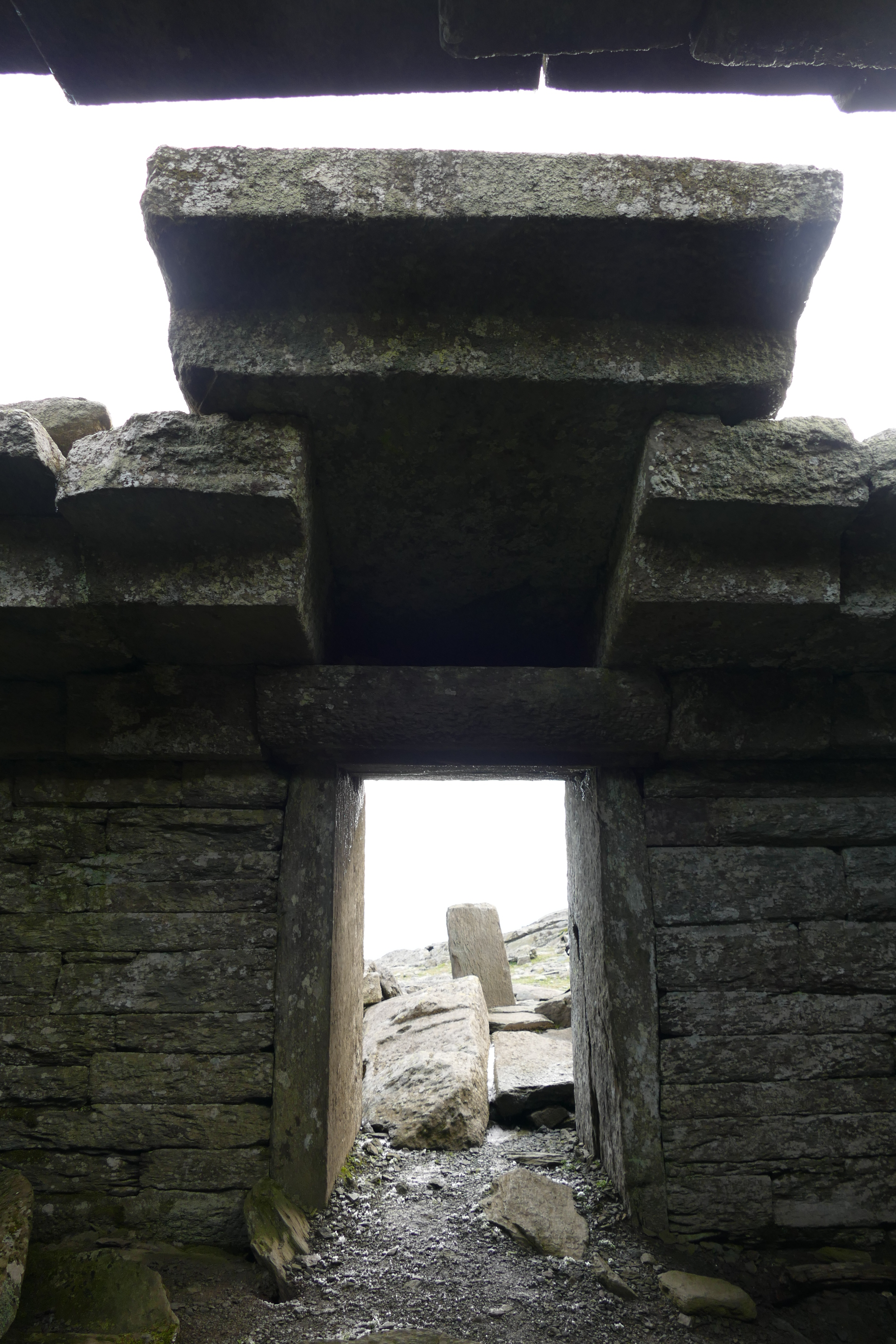 Ochi Dragon-house: entry seen from inside